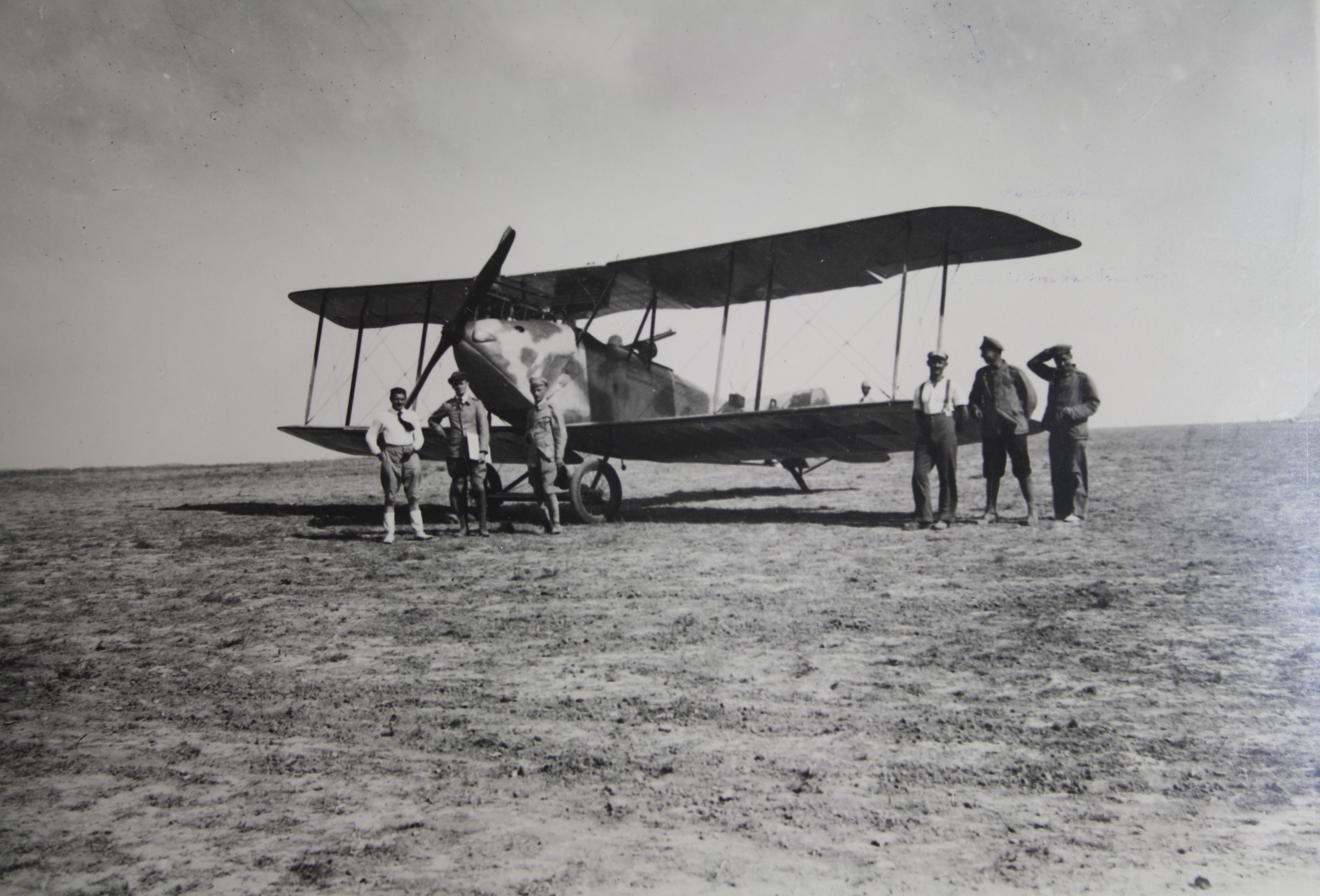 First World War in Israel